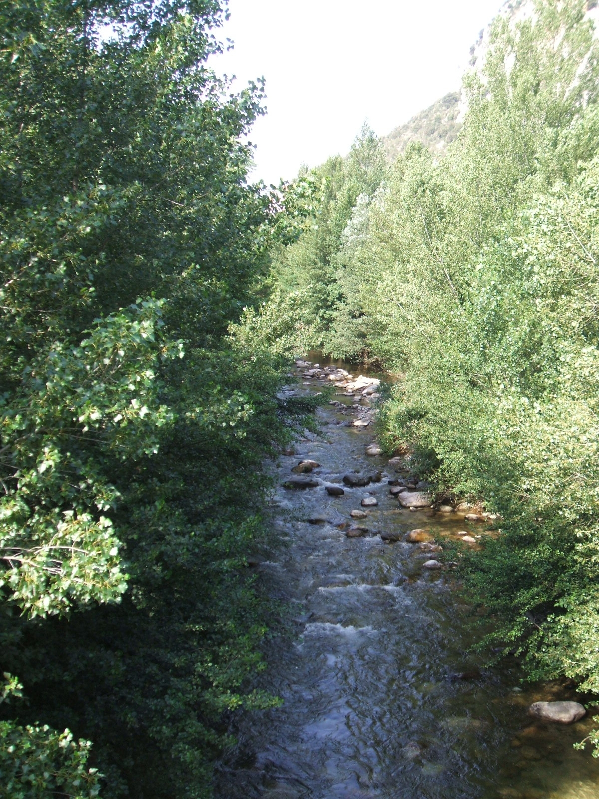 The Têt River near Villefranche-de-Conflent (département of Pyrénées-Orientales, Languedoc-Roussillon région, France).